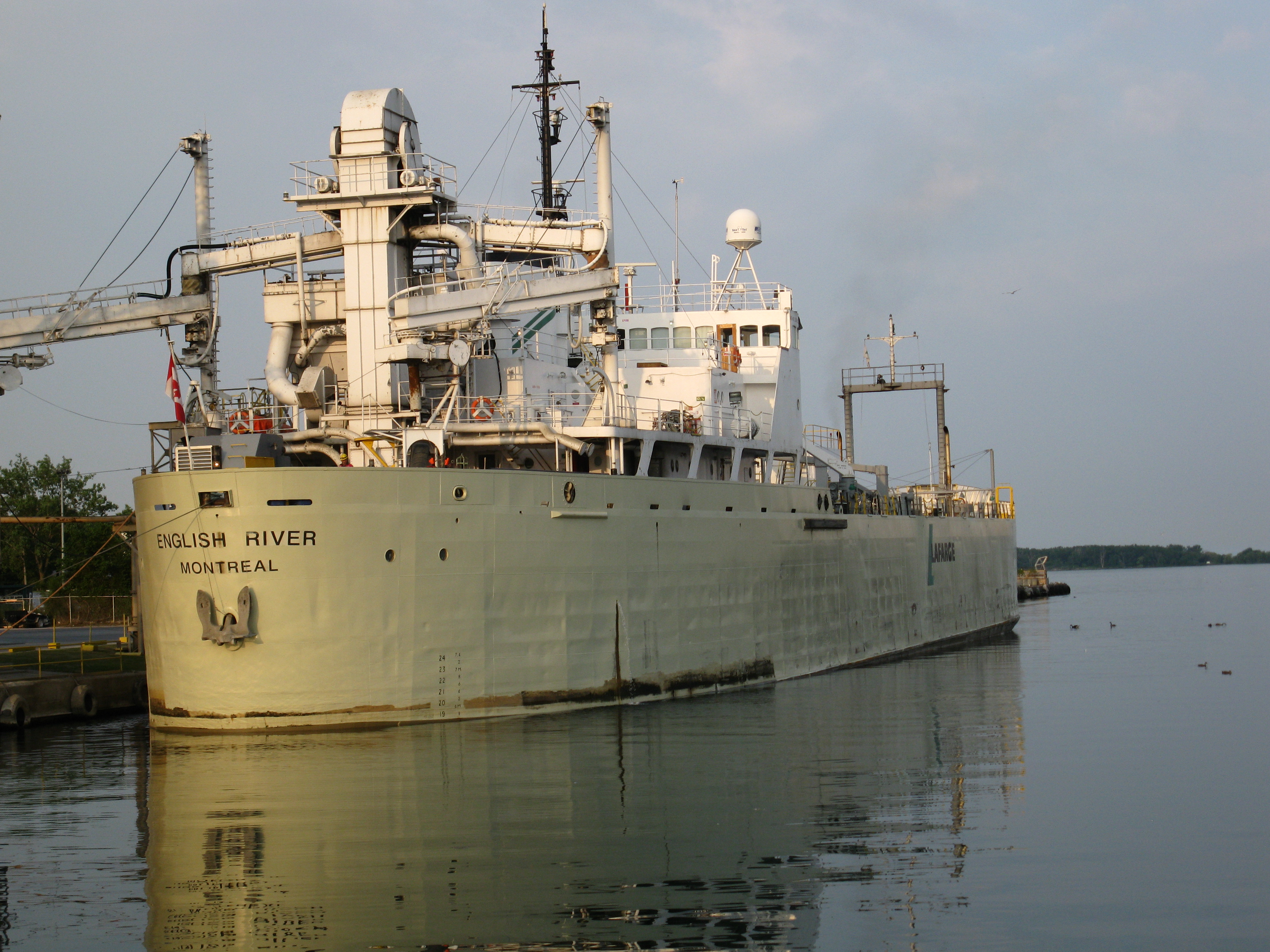 Lake freighter English River, about 7:30am, 2012 07 06 -j.jpg